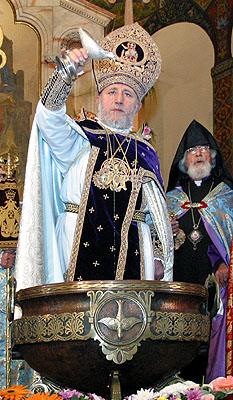 Եկեղեցական արարողություններ